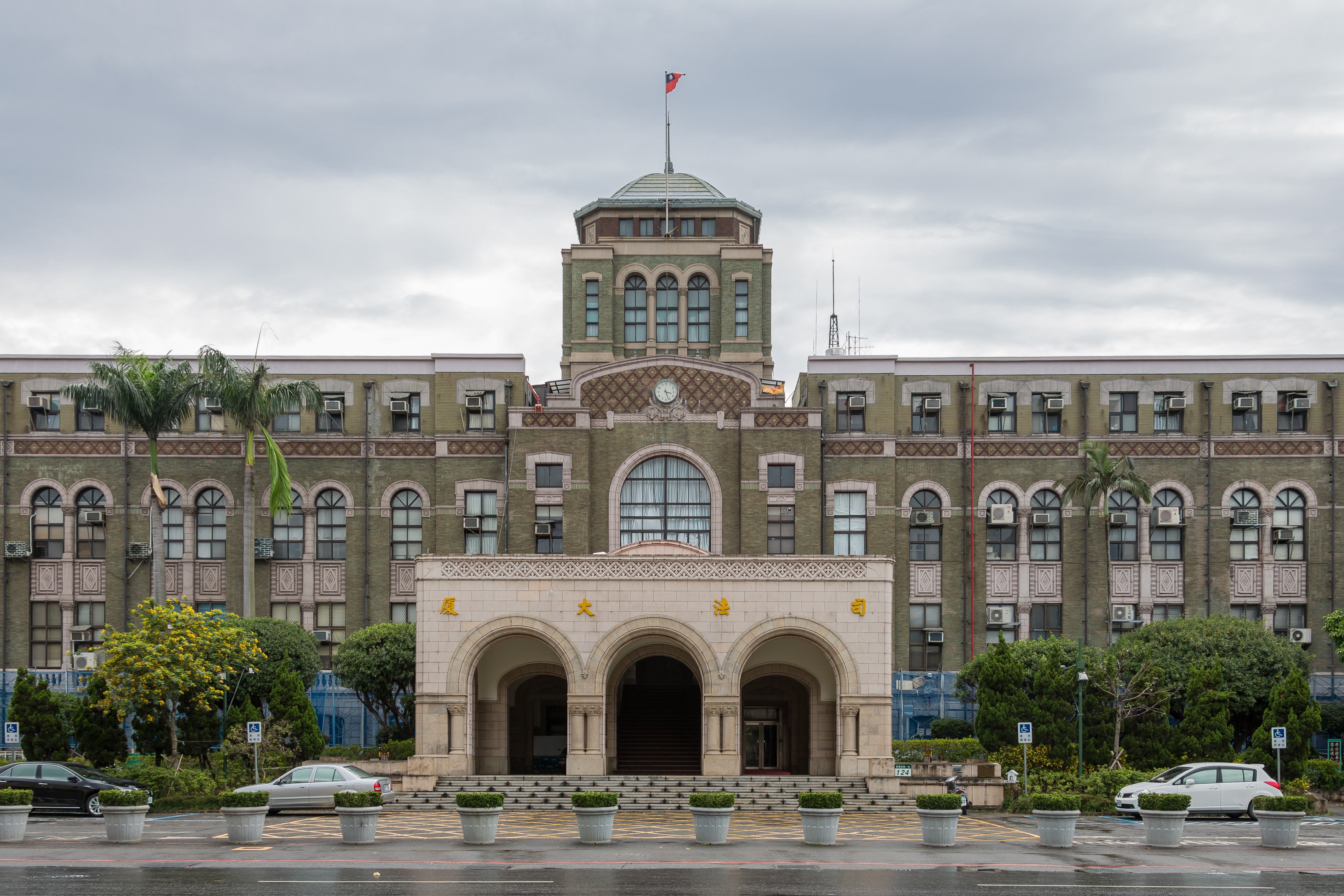 Taipei, Taiwan: "Judicial Yuan", The Highest Judicial Organ Of ROC.